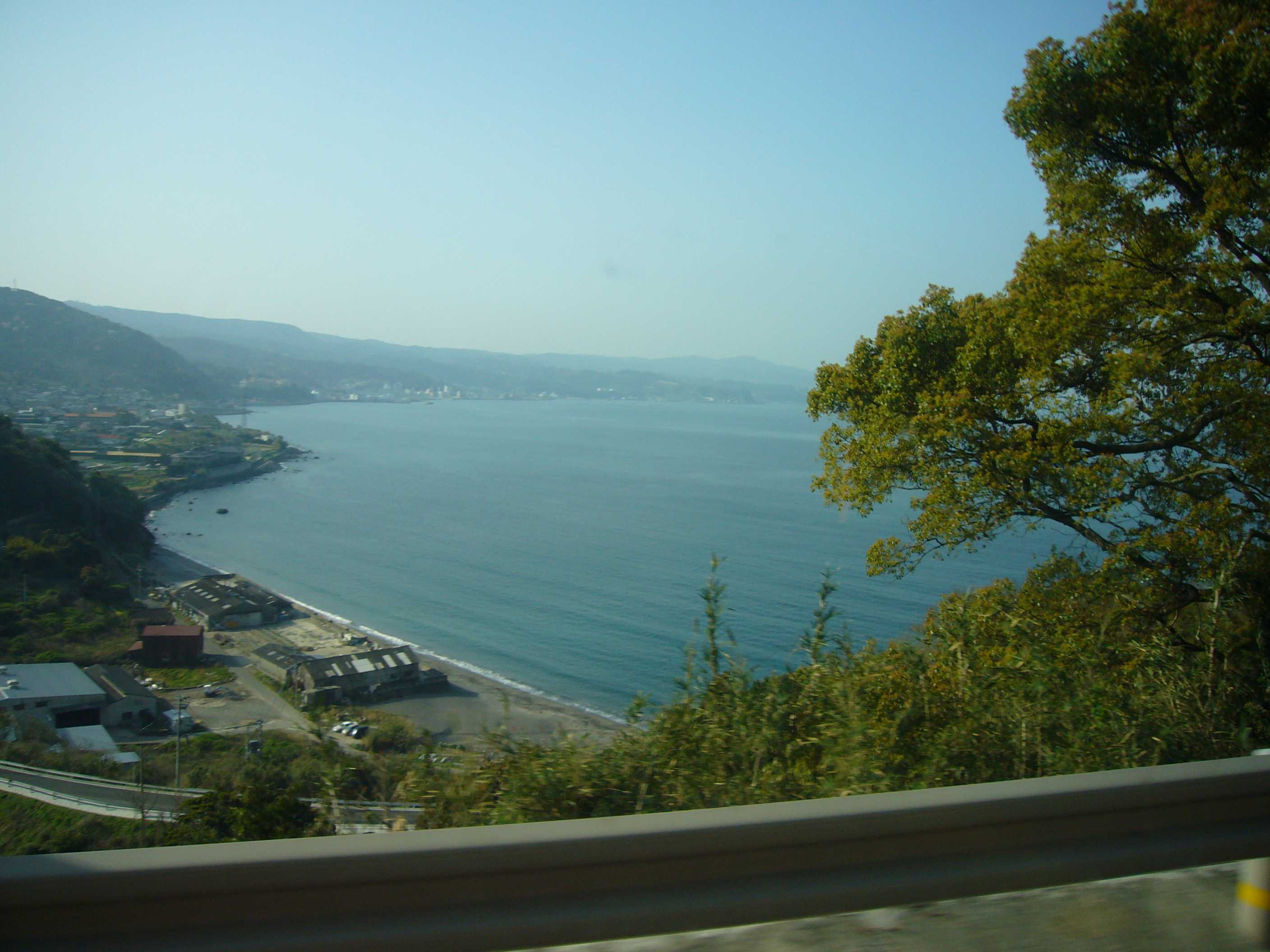 The Tachibana bay, Unzen, Nagasaki prefecture, Japan